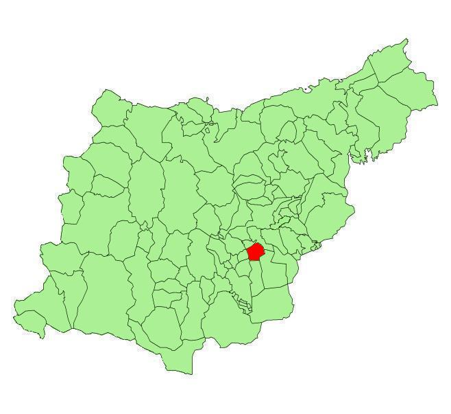 Orendain municipality in the province of Guipuzcoa